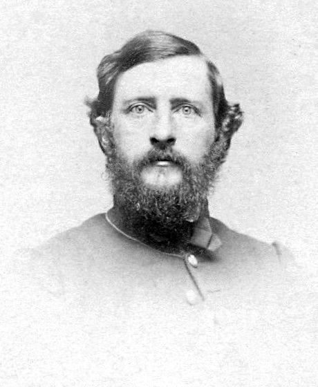 Photograph of George Grenville Benedict